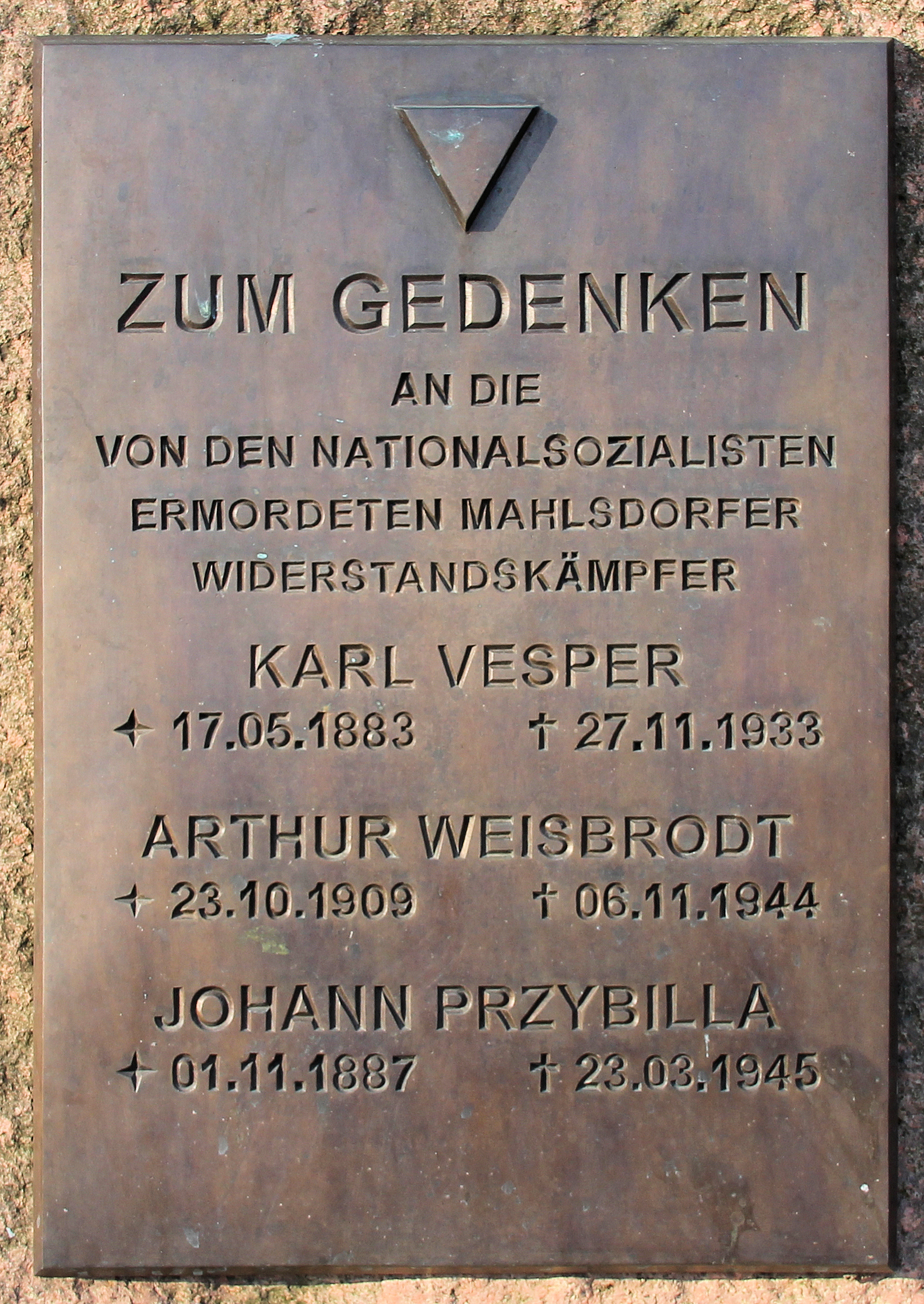 Memorial plaque, Karl Vesper, Arthur Weisbrodt, Johann Przybilla, Hummelstraße 7, Berlin-Mahlsdorf, Germany